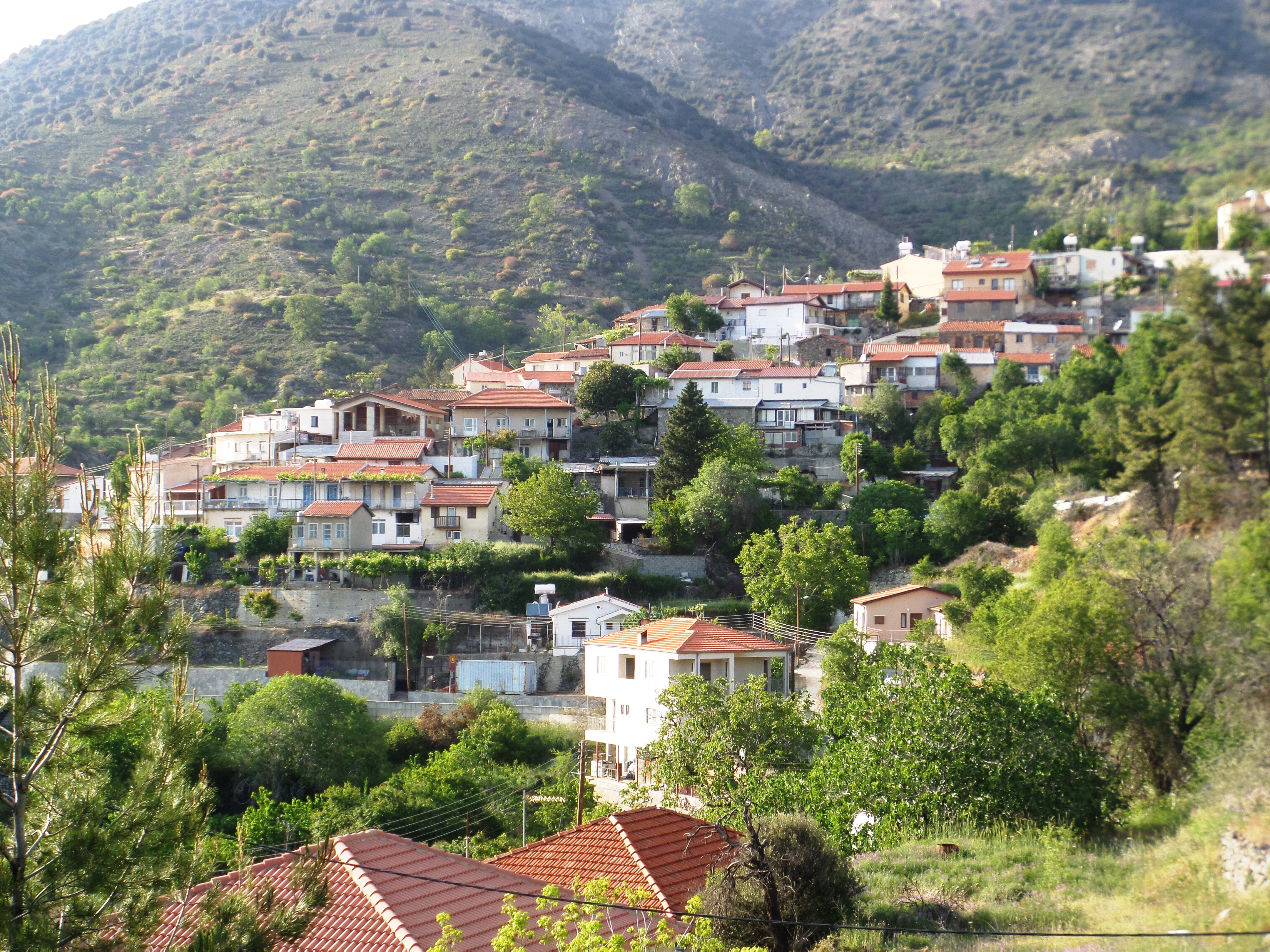 View of Chandria.